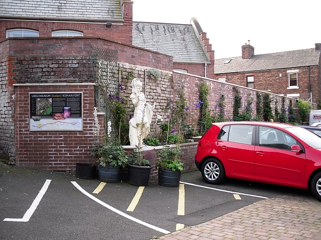 Site of Uxelodunum Roman fort in Stanwix The information board and statue are in the car park of the Cumbria Park Hotel, with Stanwix Primary School behind. This was the north western side of Uxelodunum, the biggest fort on Hadrian's Wall. It covered nearly 4 hectares, with massive stone buildings surrounded by a wall, banks and ditches. The fort housed the largest auxiliary regiment in the British province, known as the ala Petriania, which had up to 1,000 cavalry. This part of the car park was excavated by Carlisle Archaeological Unit in 1984. Some photographs of the dig can be seen on the board, information from which has been used for this description. Sadly for the local tourist industry, nothing of the magnificent fort remains above ground today.